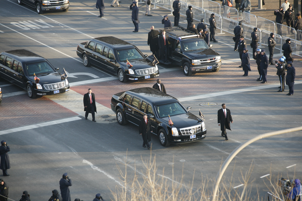 President Barack Obama's Cadillac limousine makes its debut during the 2009 presidential inaugural parade. The "2009 Cadillac Presidential Limousine" is heavily armored and guarded by Secret Service agents. The limousine is flanked behind by two 2005 heavily modified Cadillac DTS's used by President George W. Bush